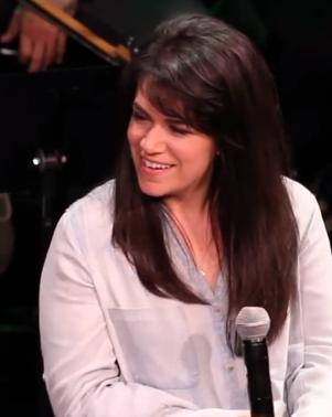 Should comedians date other comedians? Comedians Catie Lazarus, Abbi Jacobson, & Ilana Glazer discuss whether it works for female comedians. We came up with one comedy couple that works well. There are others, but it remains a question for the ages.